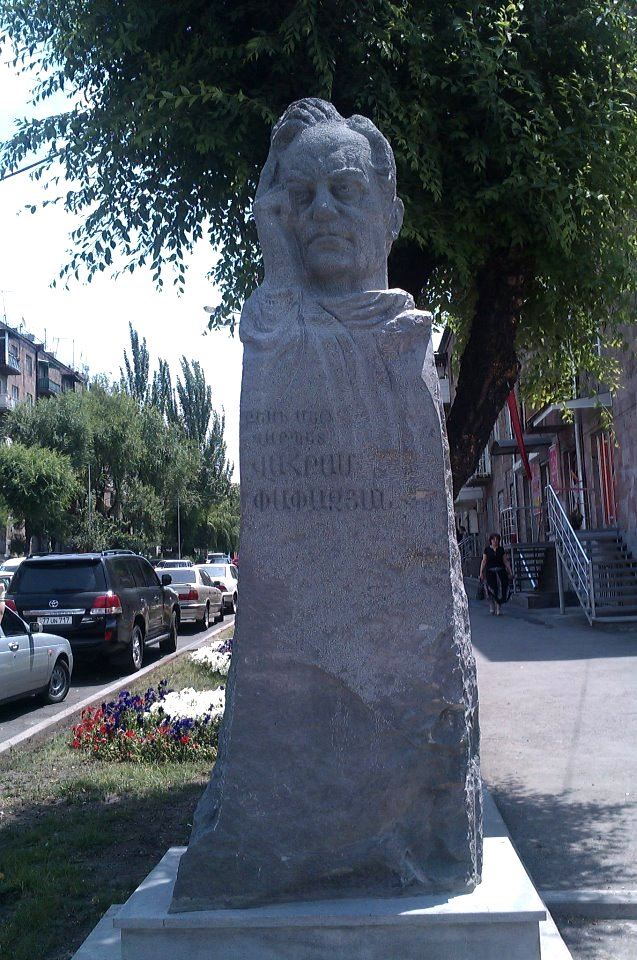 Vahram Papazyan Statue